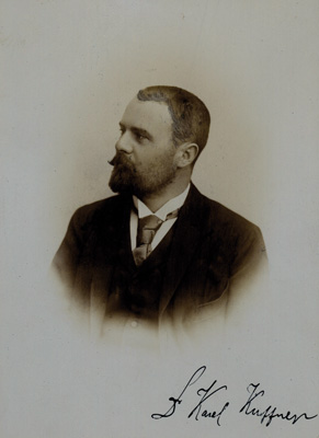 Karel Kuffner